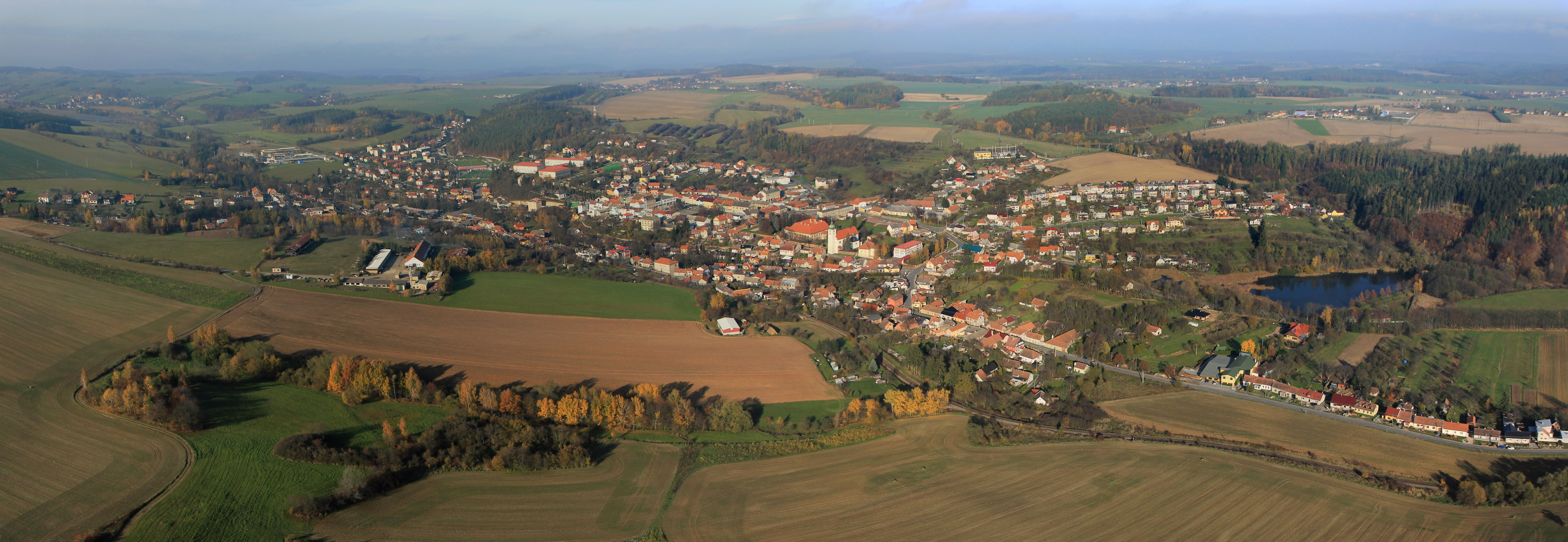 Konice